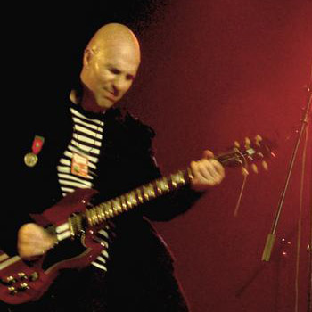 Edward Ball and The Times in Spain.